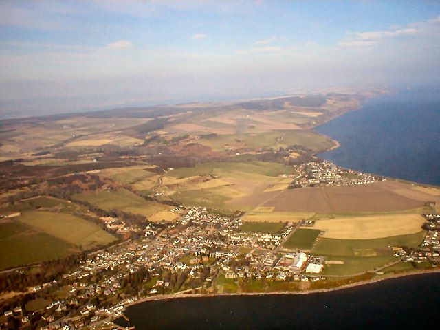 Fortrose & the Black Isle. Photograph taken from Super Puma helicopter en route Faroes